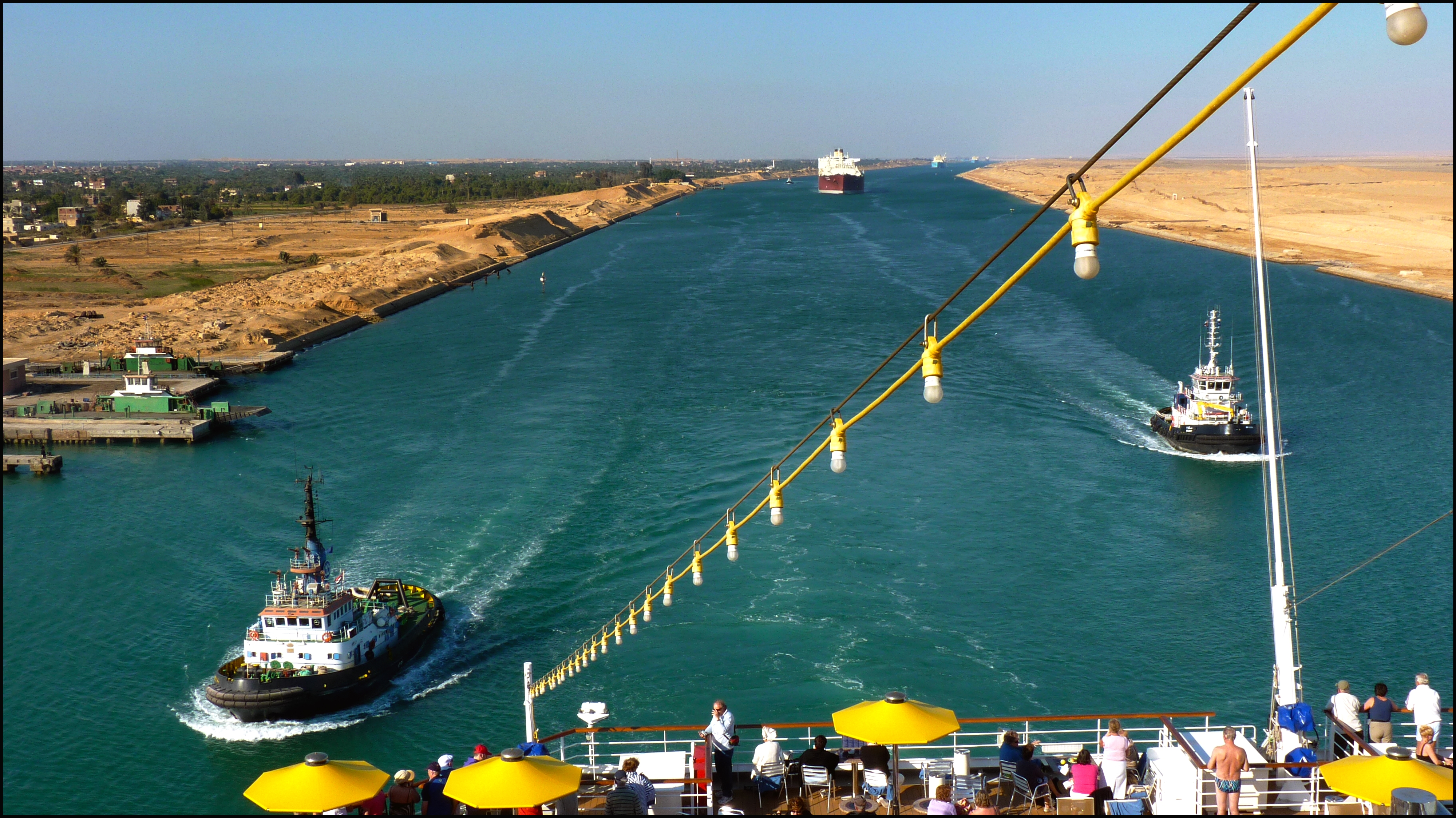 Column of ships along the Suez Canal